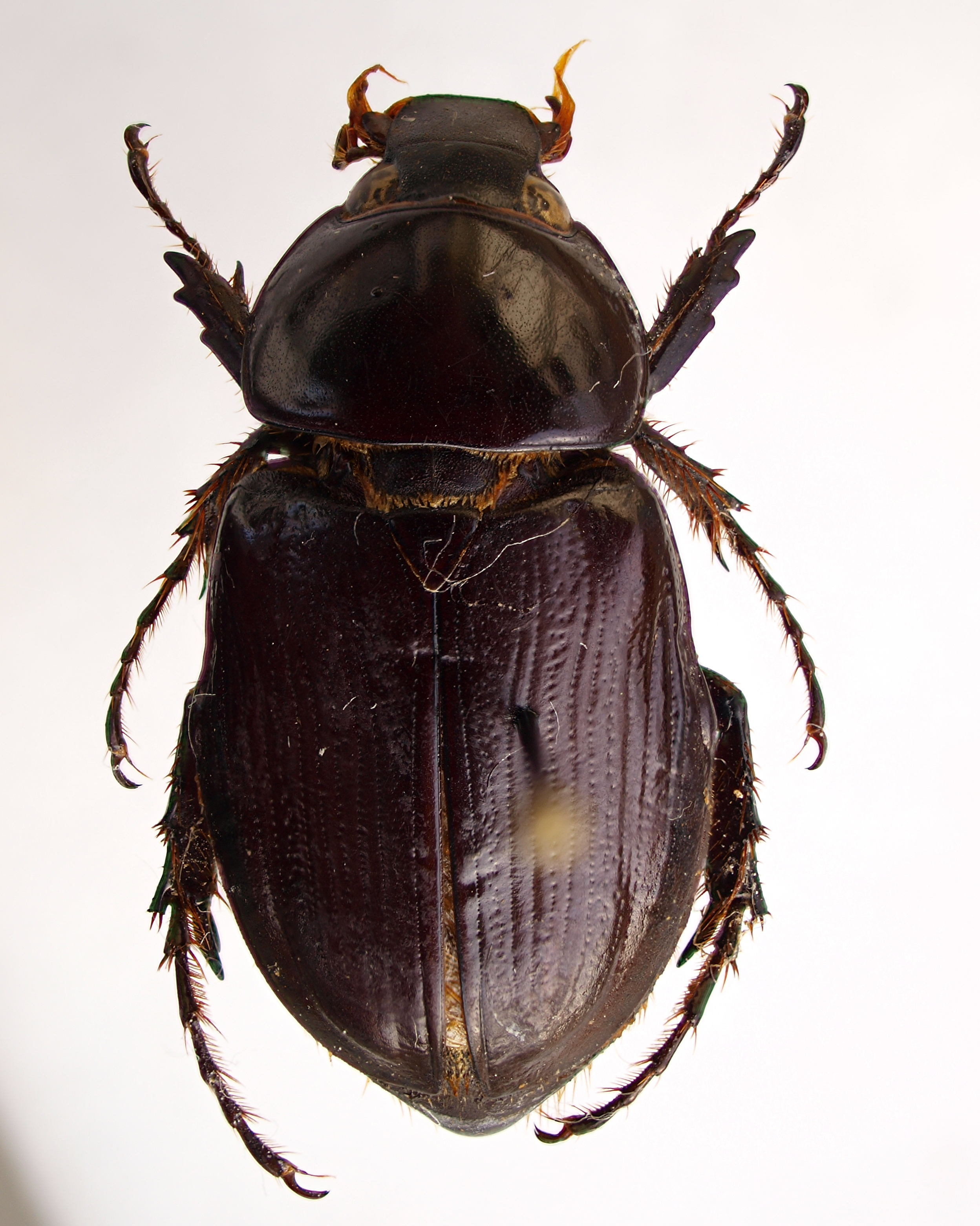 Aspidolea fuliginea (Dynastinae, Cyclocephalini), sex unknown